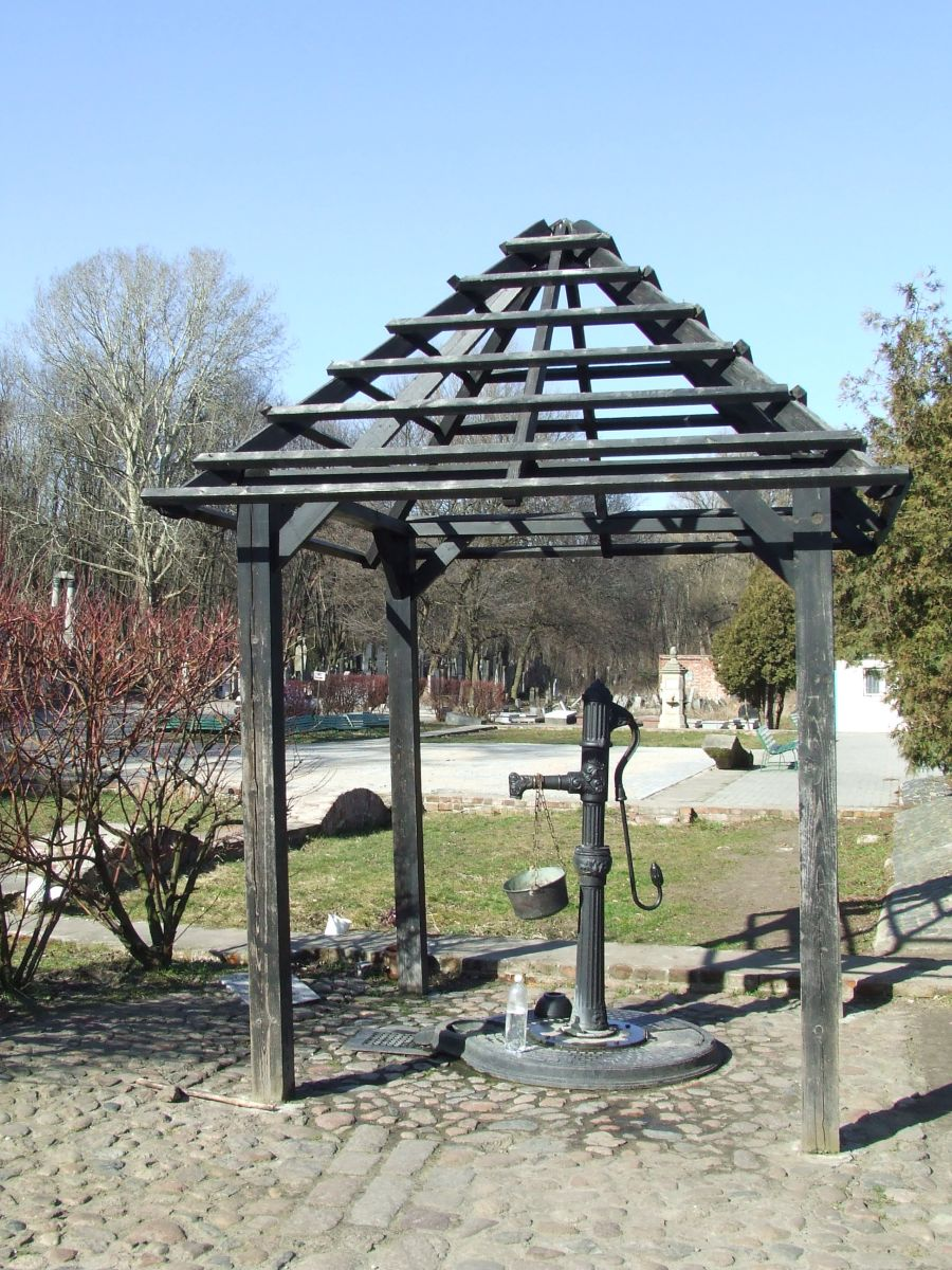 Well and piston water pump at Jewish Cemetery in Warsaw.